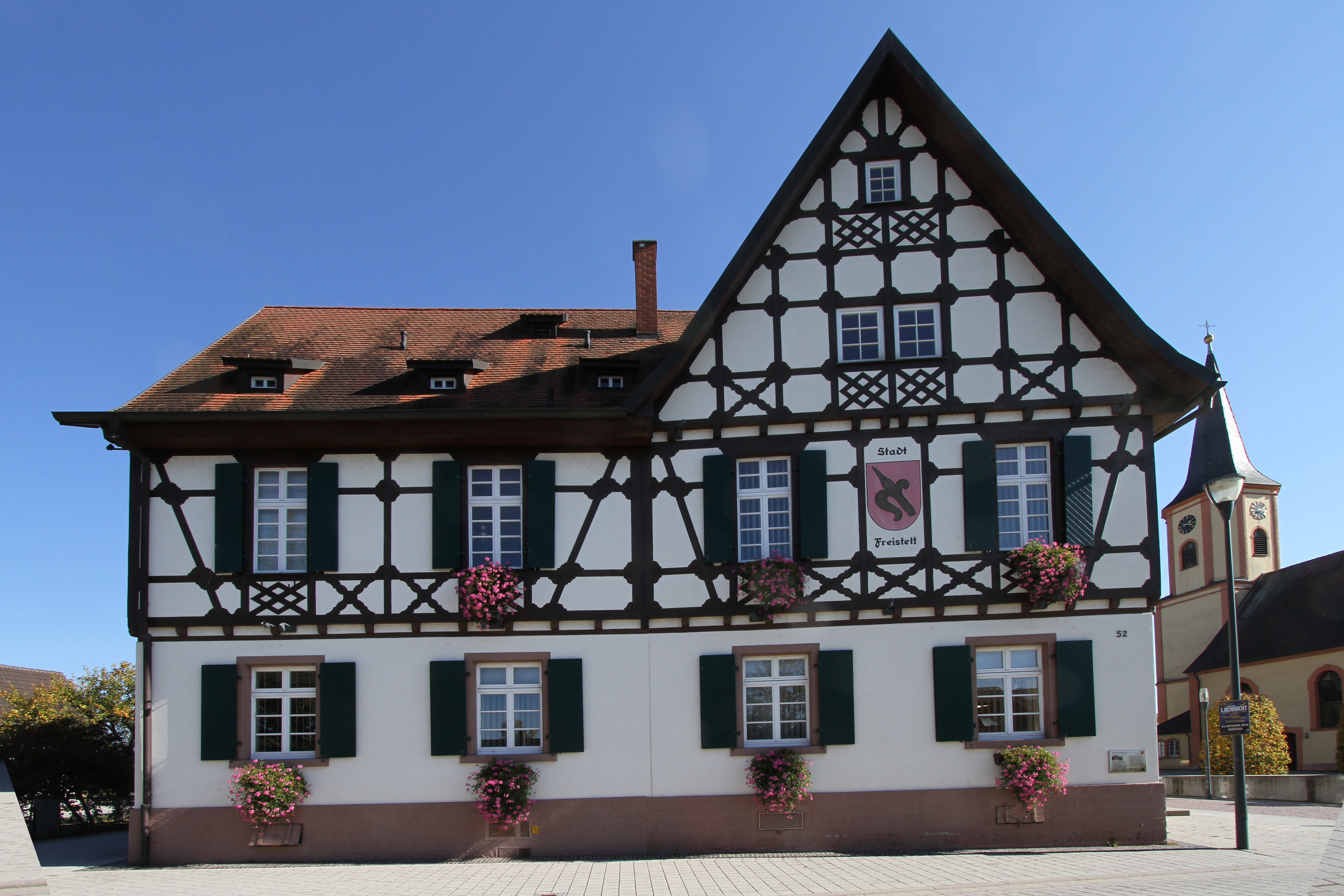 Town hall of Rheinau (Baden) in Freistett.